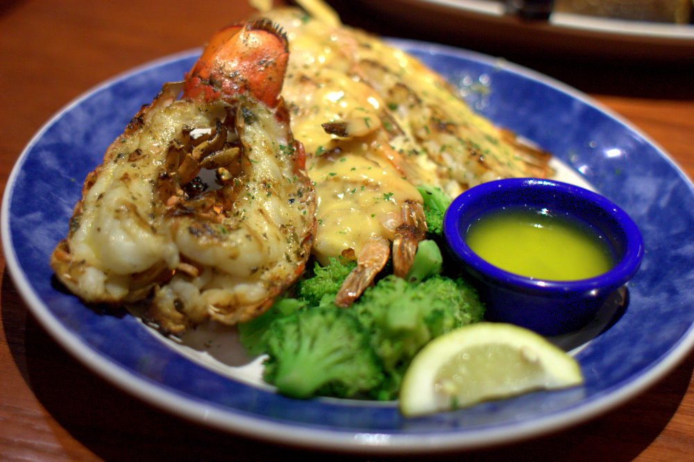 Get the full scoop